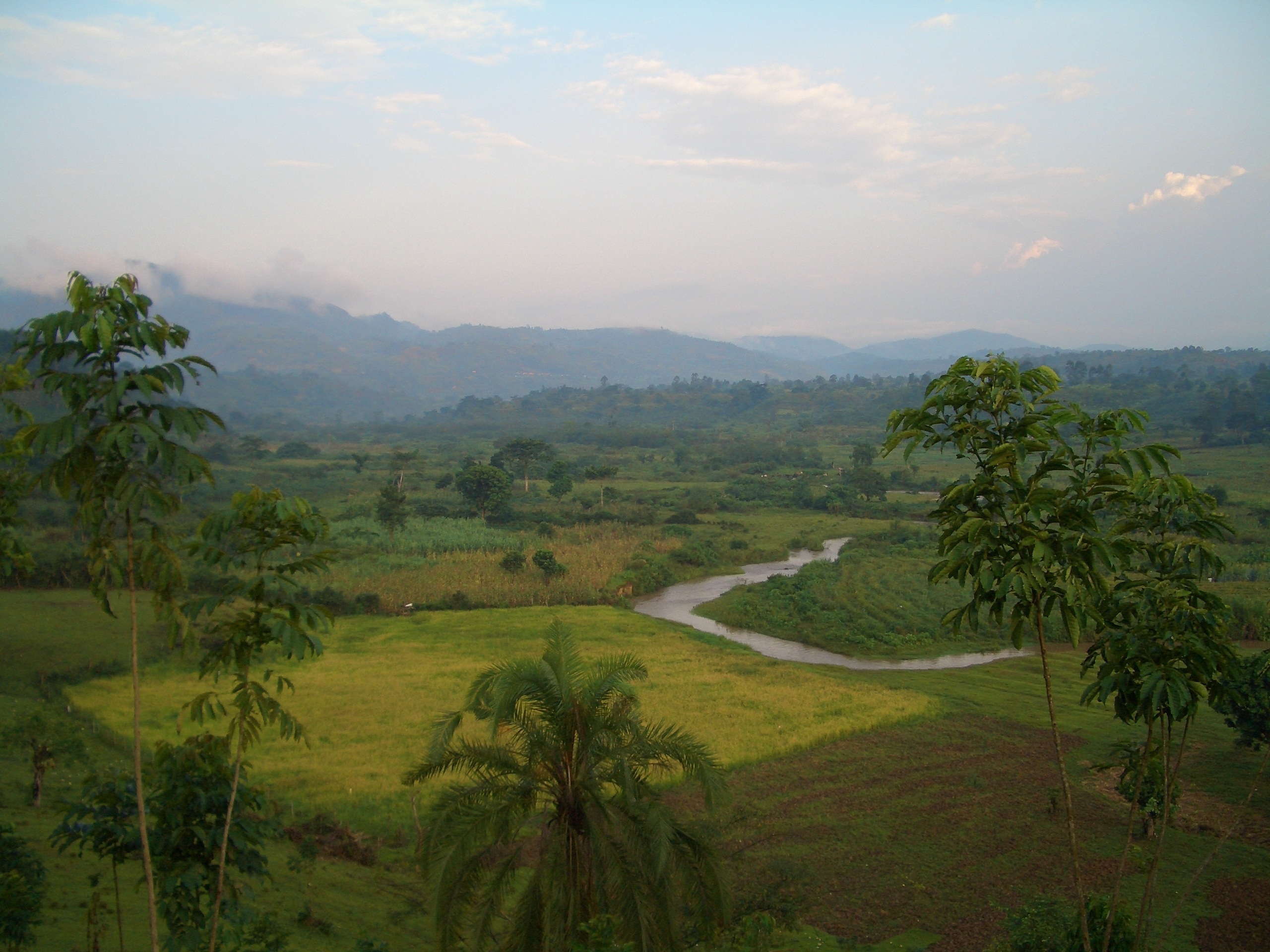 Bwindi Impenetrable National Park (Uganda)